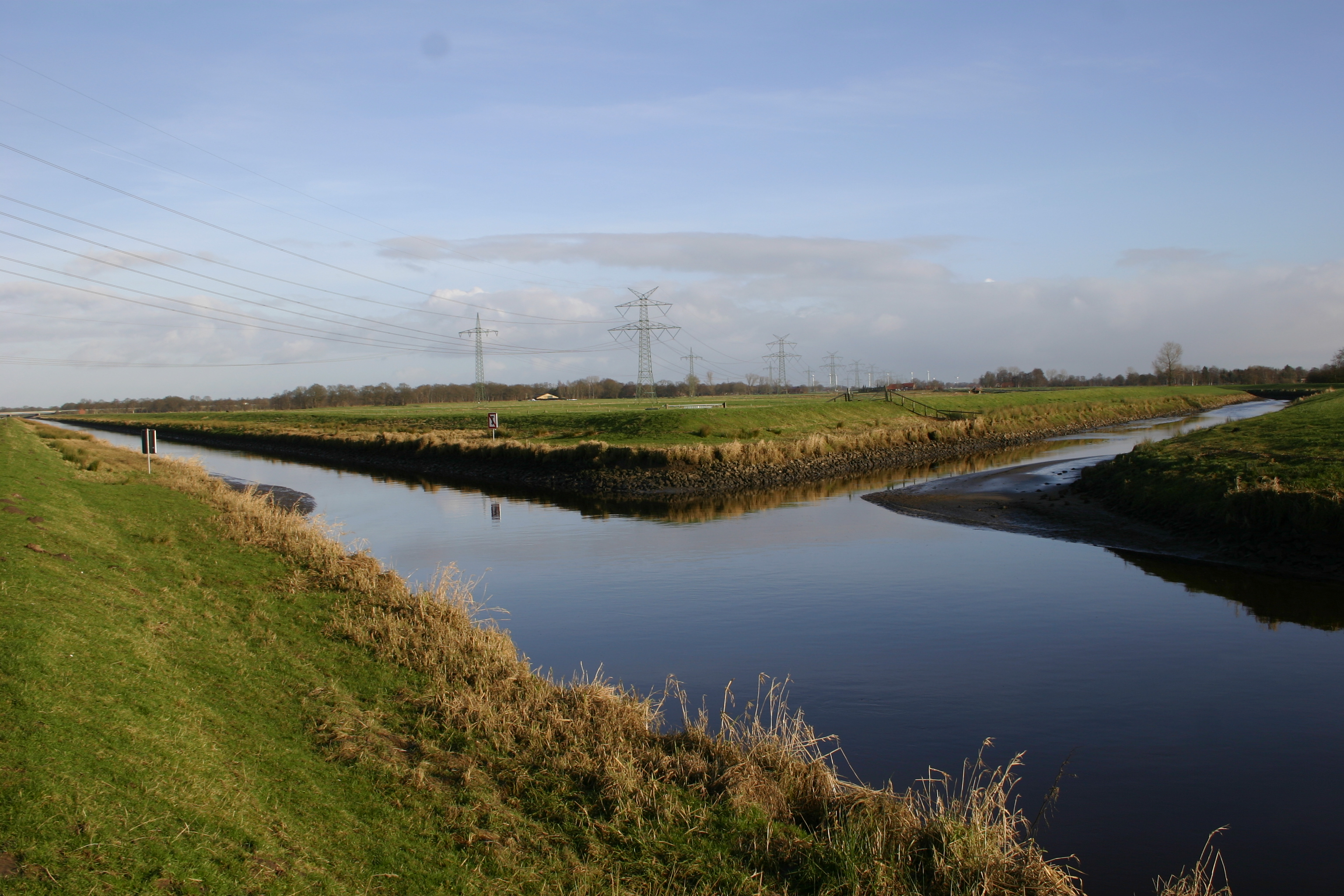 Confluence of Nordgeorgsfehn-Kanal (left) and Südgeorgsfehn-Kanal near Filsum, district of Leer, East Frisia, Germany. As can easily be seen on the right, both canals are still subjected to the tides, despite being located several dozen kilometers inland from the North Sea